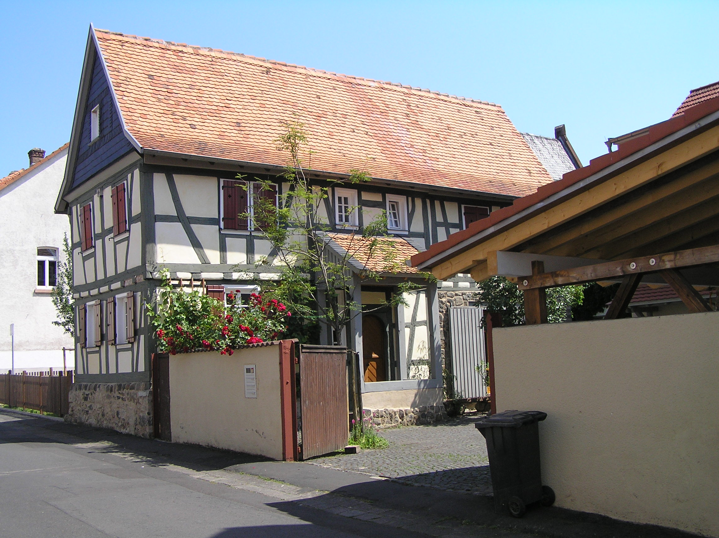 Old house in front of the Ancient city hall Ober-Erlenbach, Bad Homburg vor der Höhe, Germany